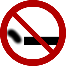 Sign banning combustion (=tailpipe) vehicles.